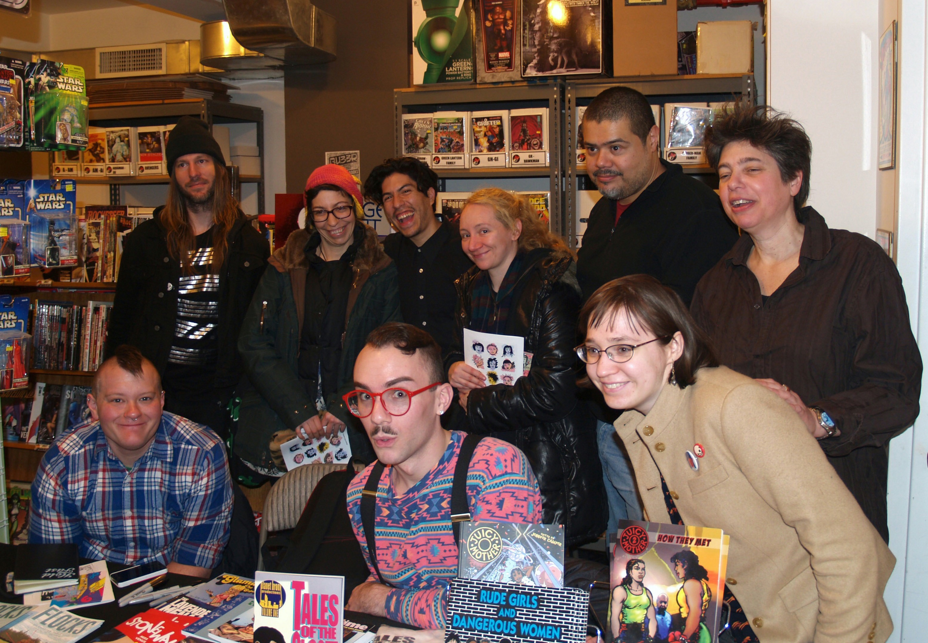 Comics creators at a February 28, 2014 signing at Jim Hanley's Universe in Manhattan for Qu33r, an LGBT comics comics anthology. Behind the table from left to right, back row, are Sabin Calvert, Katie Fricas, Carlo Quispe, Abby Denson, Ivan Velez, Jr. and Jennifer Camper. From left to right, front row, are L. Nichols, Sasha Hedges Steinberg and Laurel Lynn Leake. This photo was created by Luigi Novi. It is not in the public domain, and use of this file outside of the licensing terms is a copyright violation.